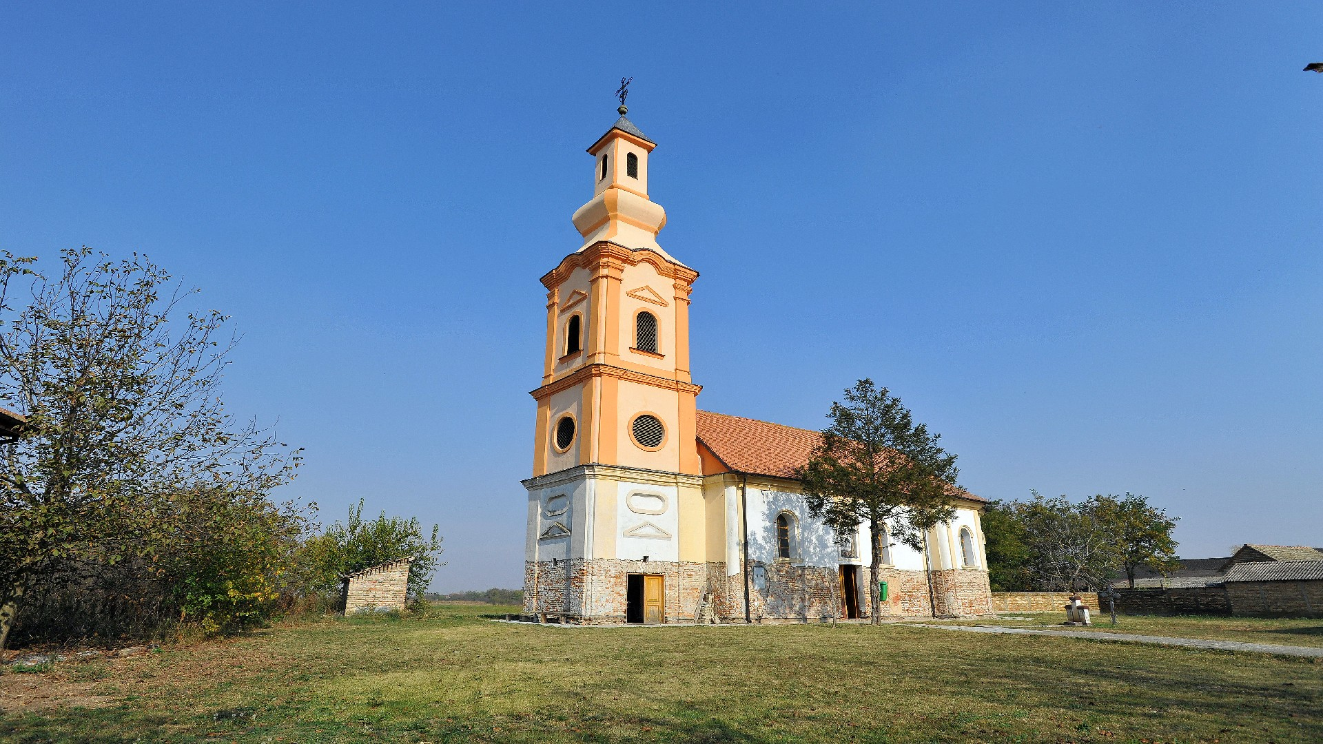 Side view of Church of Saint Nicholas in Karlovčić